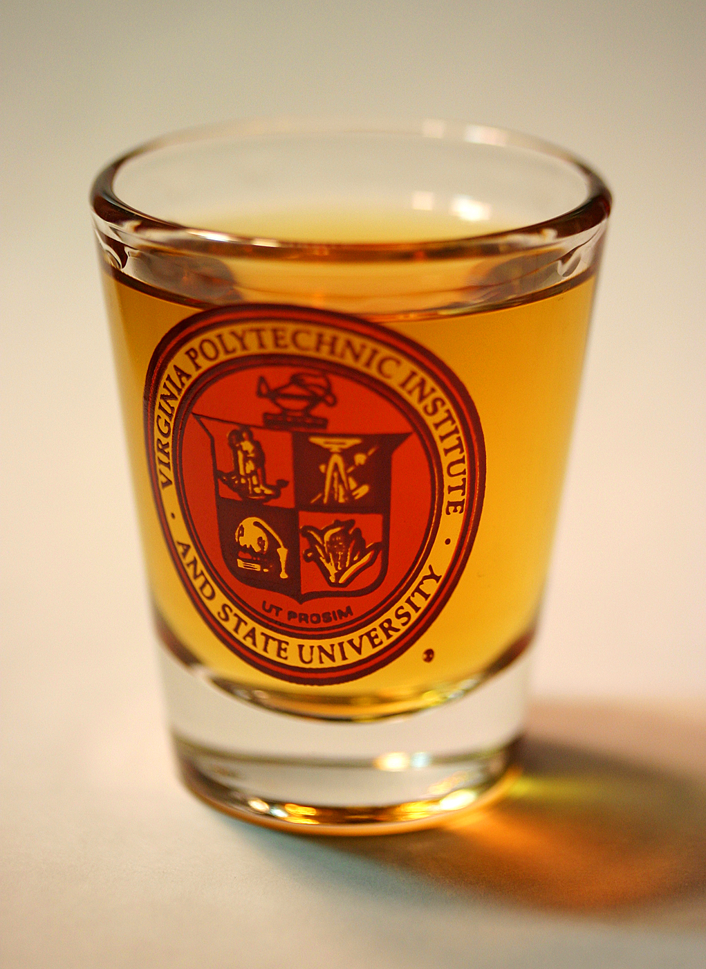 A 2 fl. oz. shot glass with the seal of Virginia Polytechnic Institute and State University. Author is Wikipedia user Gafoto